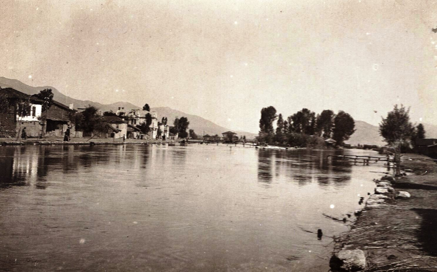 Postcard of Struga, 1920's This media file is produced by Wikipedian in Residence in Category:Wikipedian in Residence at DARM in 2016.